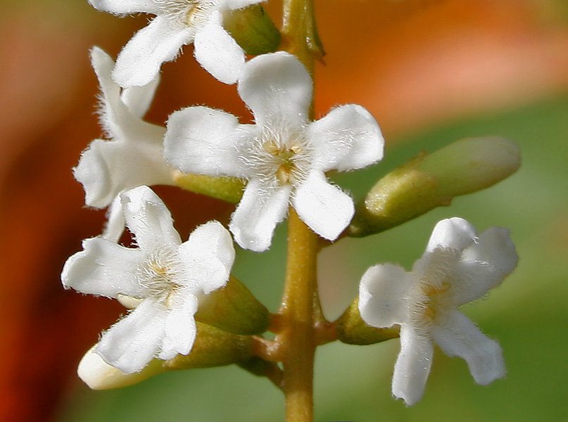 Citharexylum spinosum (Syn. C. fruticosum L.; C. quadrangulare, Citharexylum fruticosum L. forma subserratum (Sw.) Moldenke, Citharexylum subserratum Sw.)- Fiddlewood, Fiddlewood Tree, Spiny Fiddlewood - in Herbal Garden, in Rangareddy district of Andhra Pradesh, India.